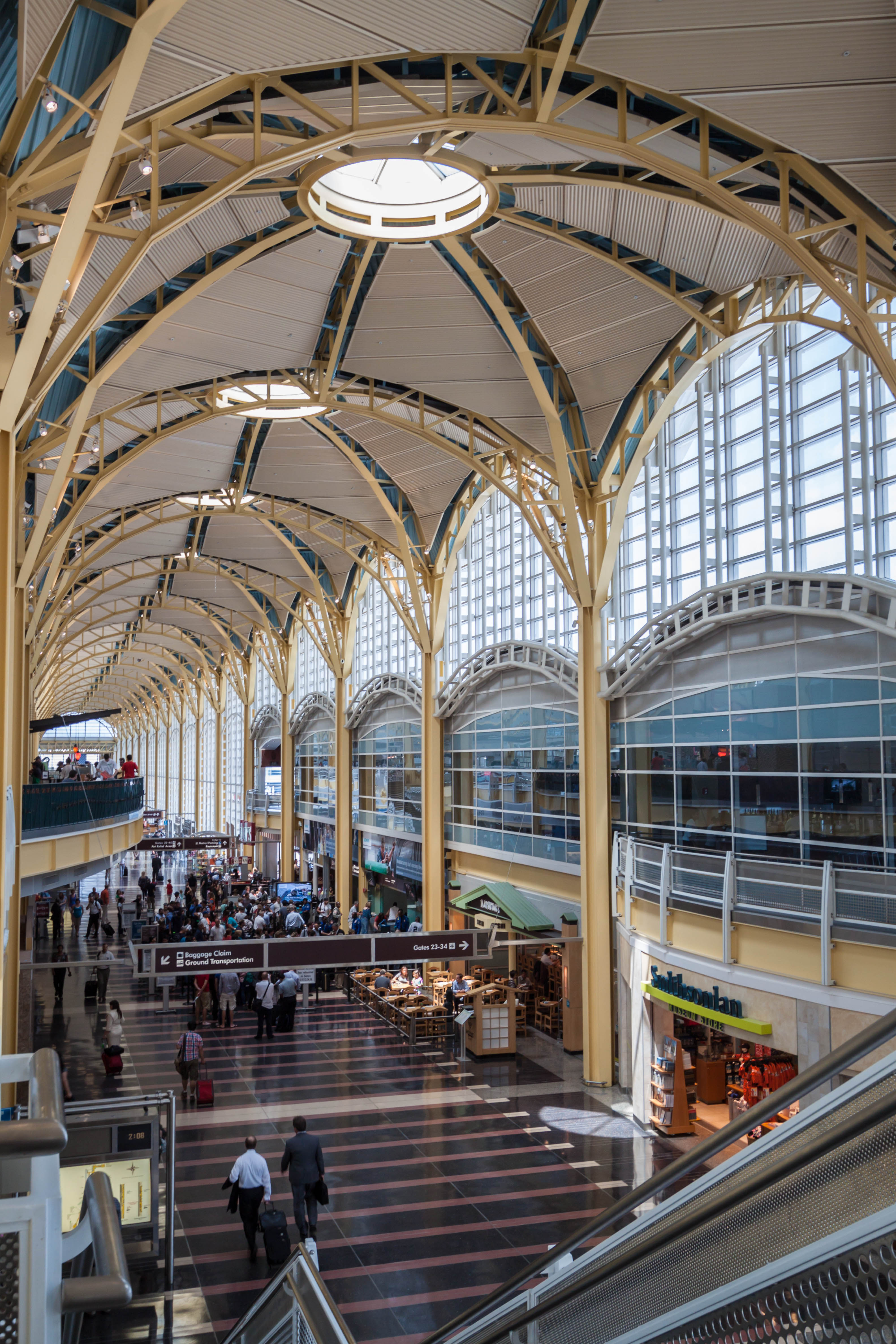 Ronald Reagan Washington National Airport, Terminal B/C